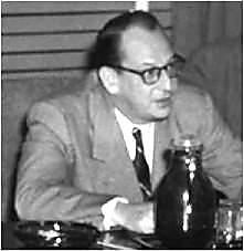 This is an image of Gordon E. Dean, chairman of the United States Atomic Energy Commission from 1950 to 1953. It appears at p. 43, col. 2, in the DOE publication, Origins of the Nevada Test Site (DOE/MA-0518), by Terrence R. Fehner and F. G. Gosling, published in 2000, and is credited to the Department of Energy.